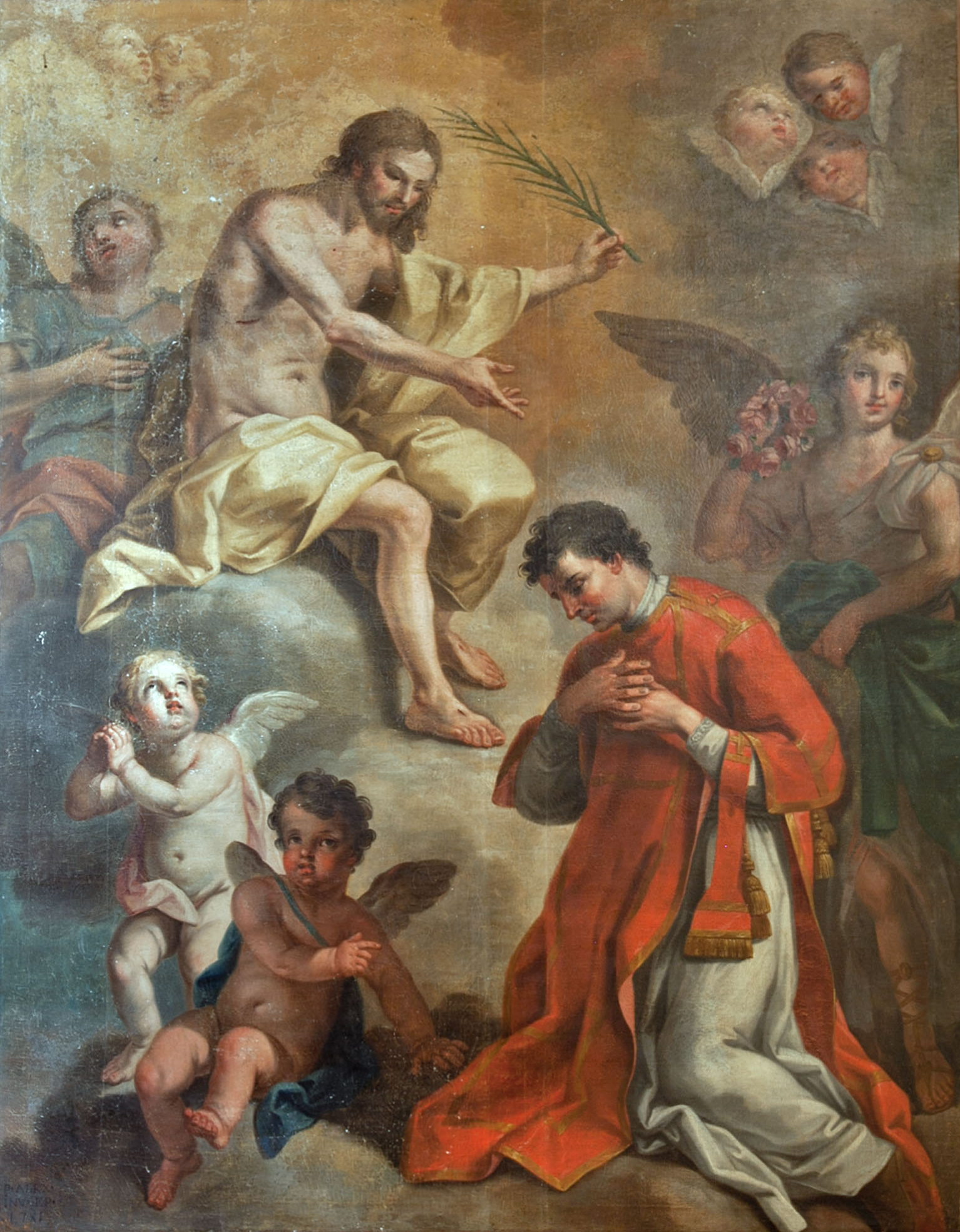 "Glorification of Saint Vincent" (1781), by Pedro Alexandrino de Carvalho, in the Lisbon Cathedral (Patriarchal Cathedral of St. Mary Major).